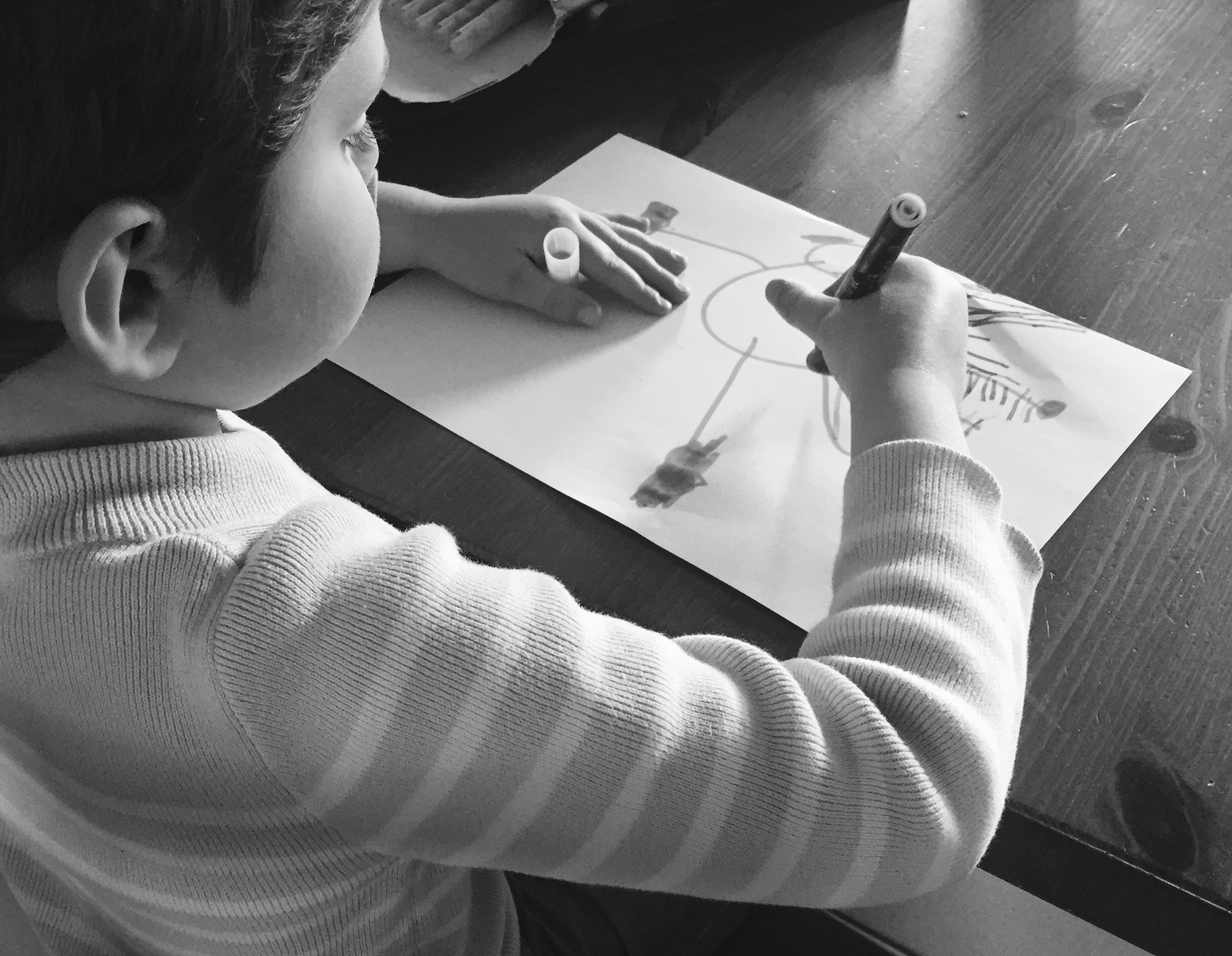 A child of 4 years and half drawing (the drawing).